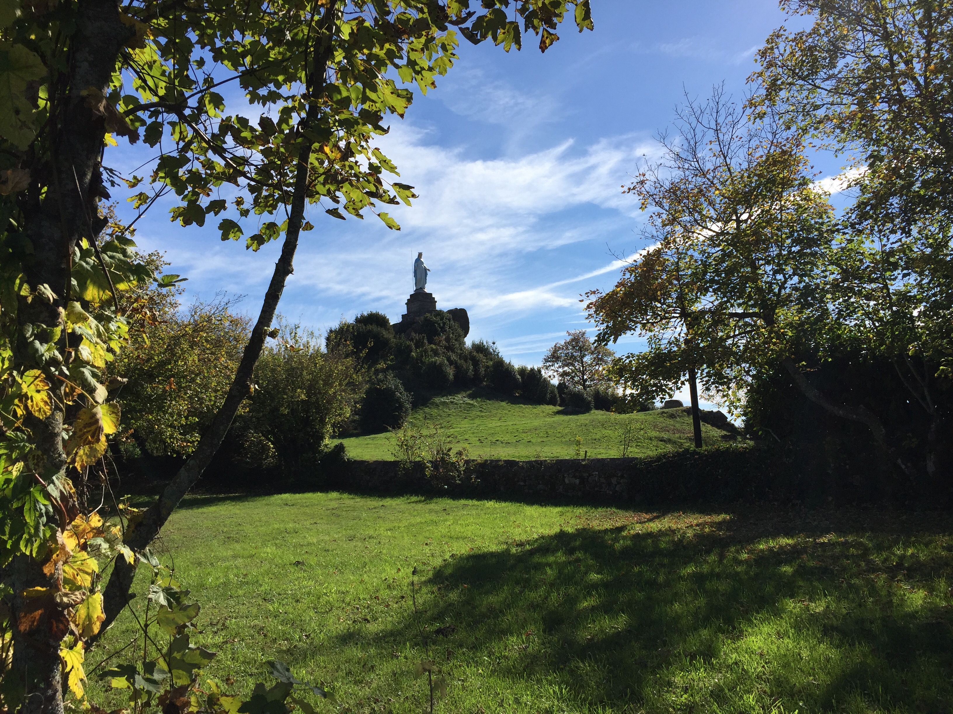 Suin, South Burgondy, France